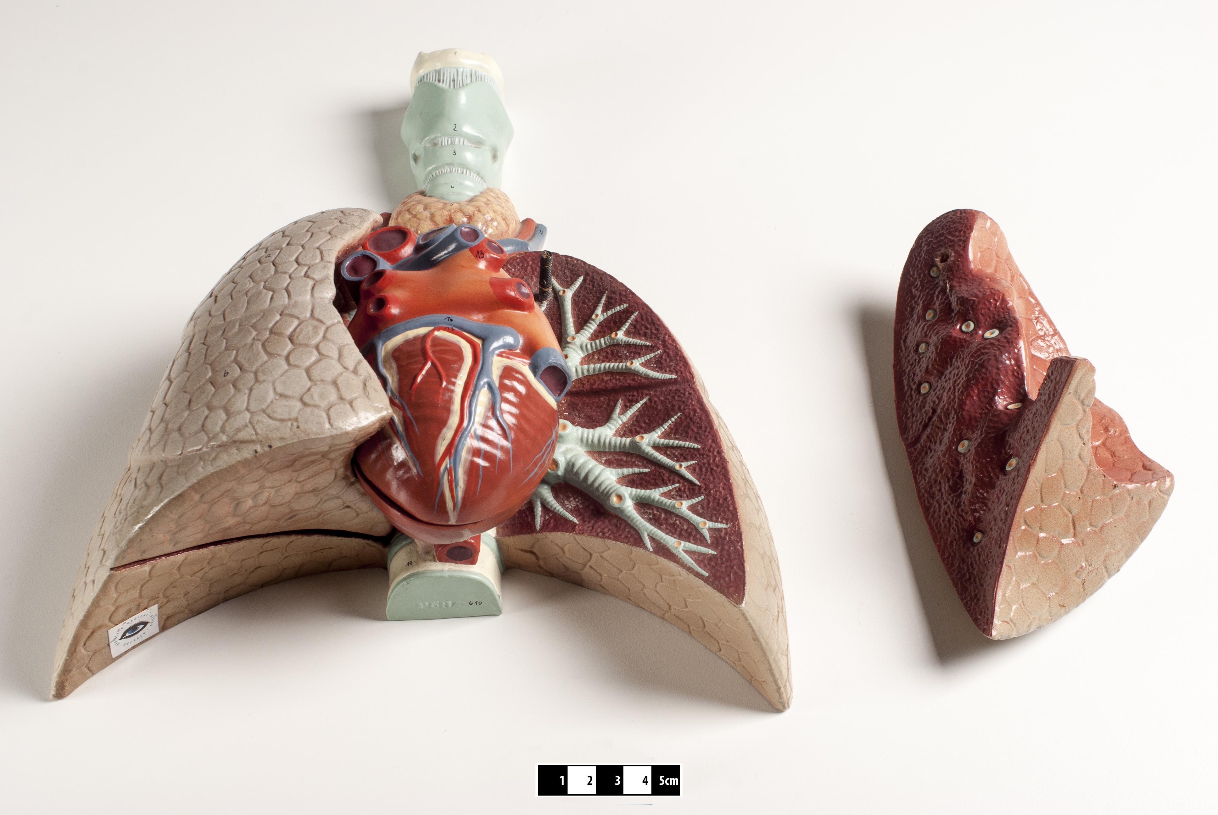 Didactic model of respiratory system. Homo sapiens Teaching model representing different parts of the respiratory system on display at the Museum of Veterinary Anatomy, FMVZ USP. This file was published as the result of a partnership between the Museum of Veterinary Anatomy FMVZ USP, the RIDC NeuroMat and the Wikimedia Community User Group Brasil. This GLAM project is reported. Photography: Museum of Veterinary Anatomy FMVZ USP.